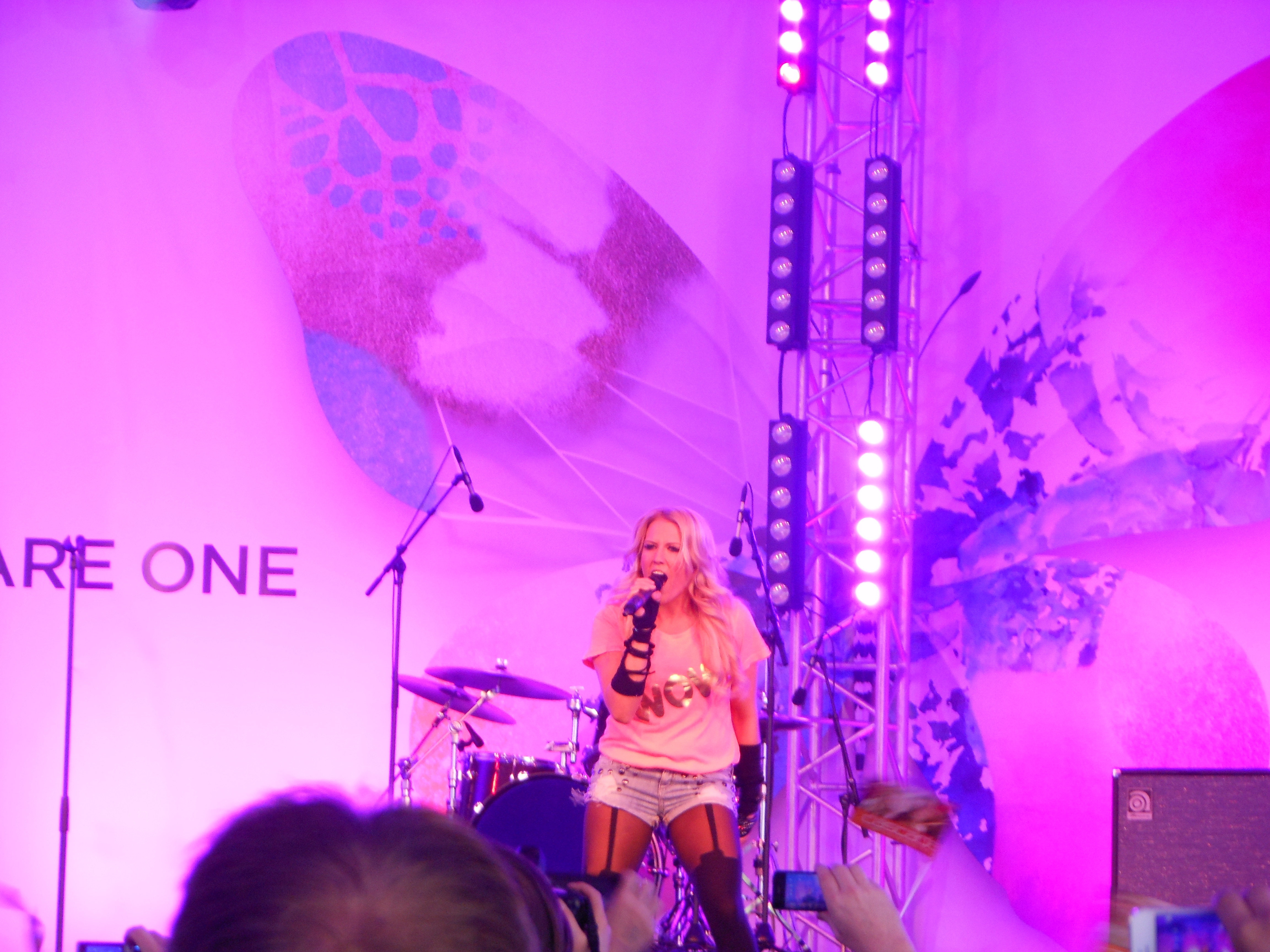 The German singer Natalie Horler of Cascada at the "Big 5 Concert", on the square Gustav Adolf in Malmö, with all the five countries automatically qualified for the finale of the Eurovision Song Contest.